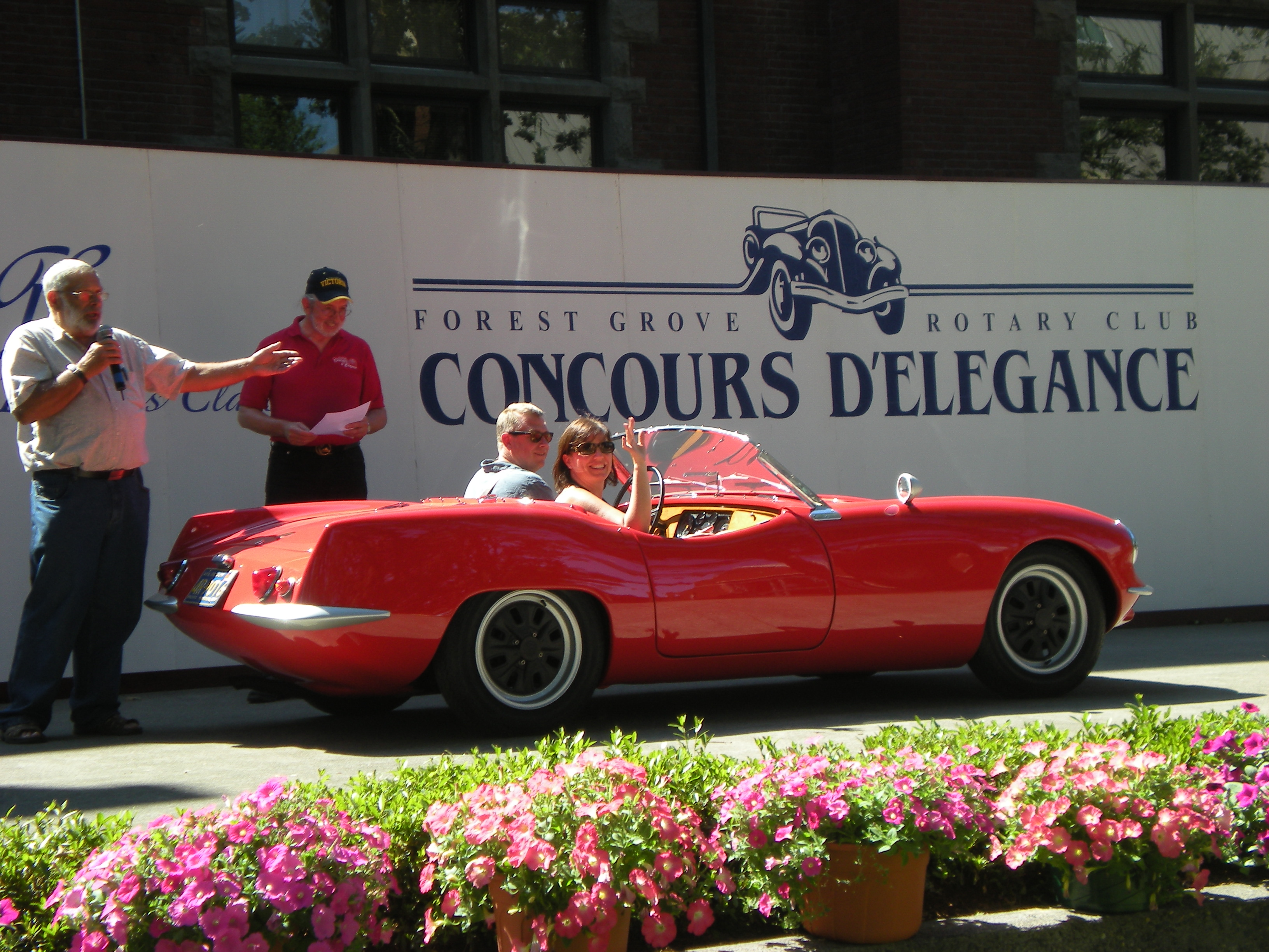 Elva Courier